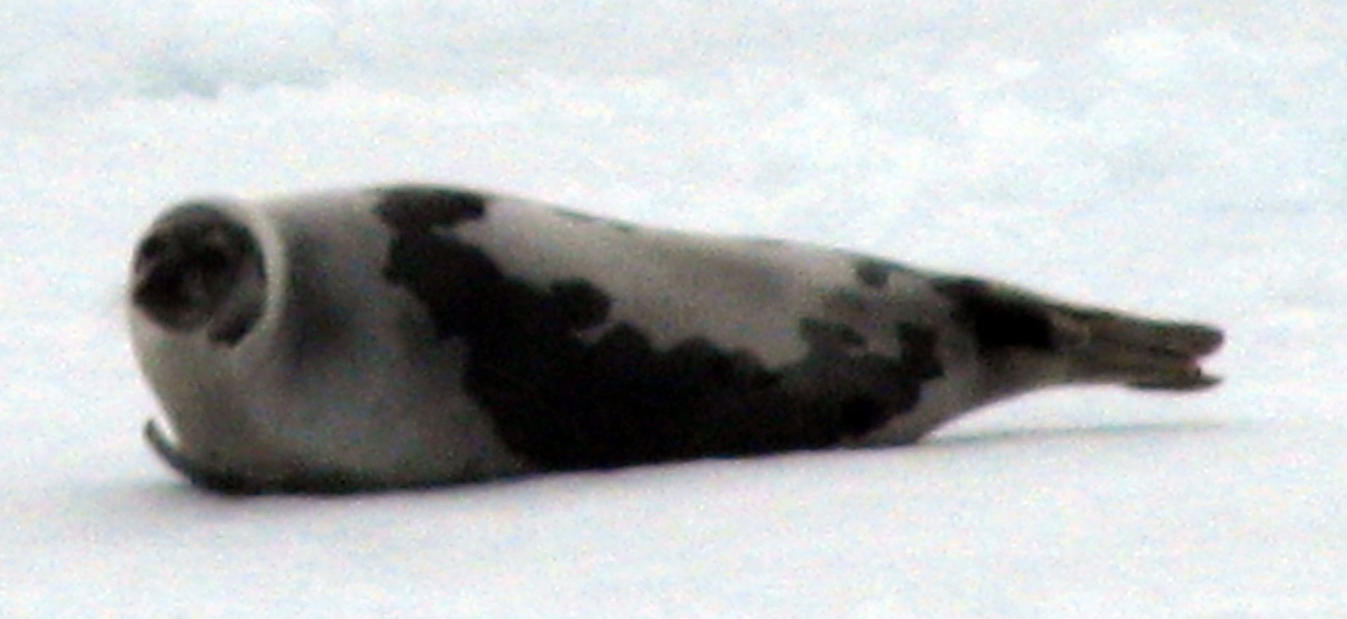 Crop of file in filename